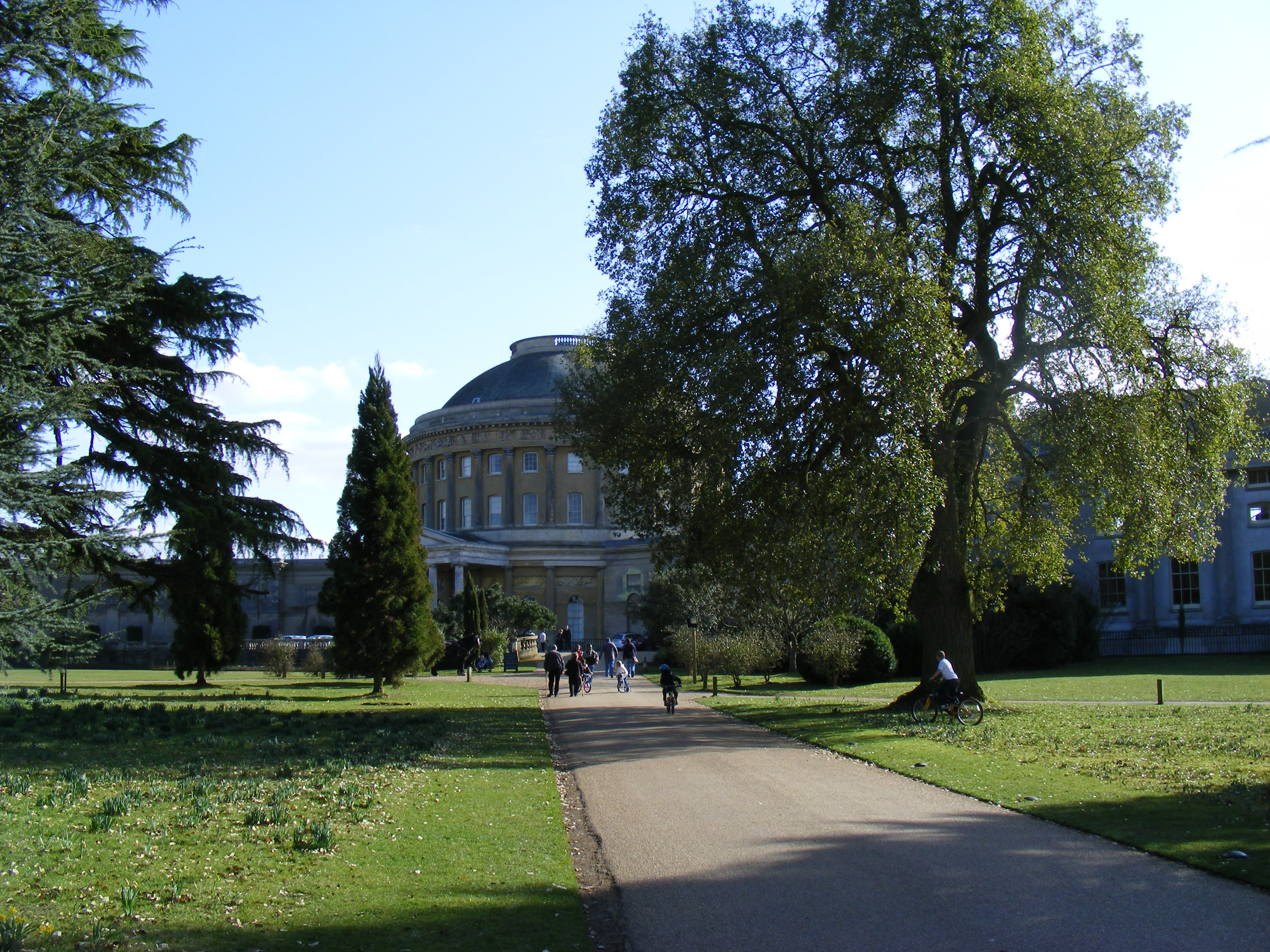 Rotunda at Ickworth House